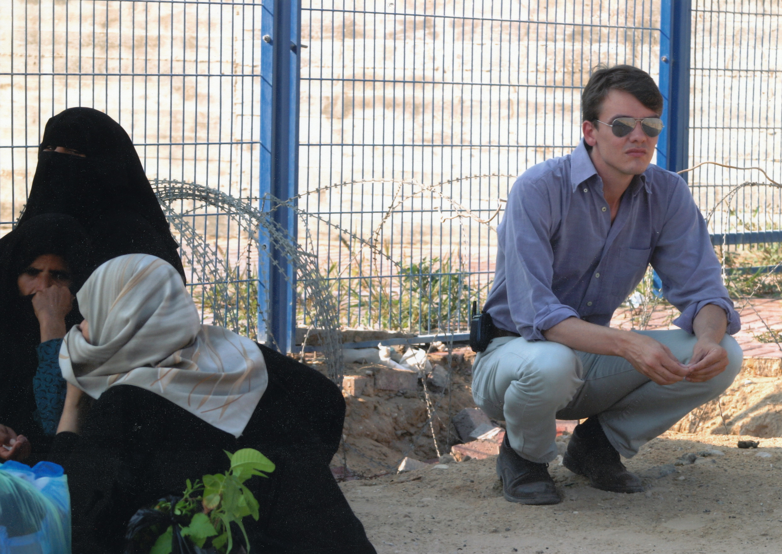 James Reynolds reporting from Gaza Strip in 2005 during Israeli disengagement.